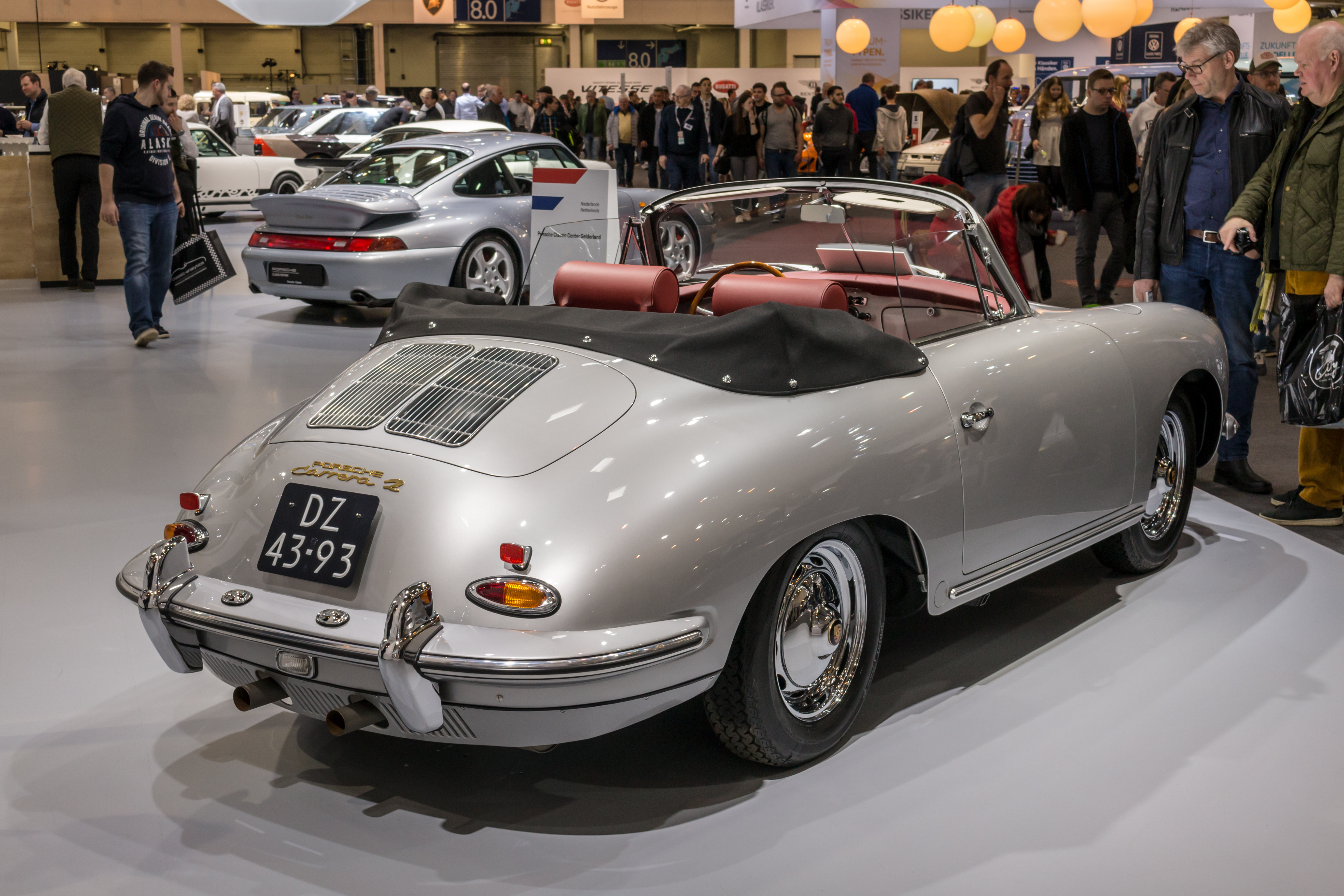 Porsche 356 Carrera 2 at Techno-Classica 2018, Essen